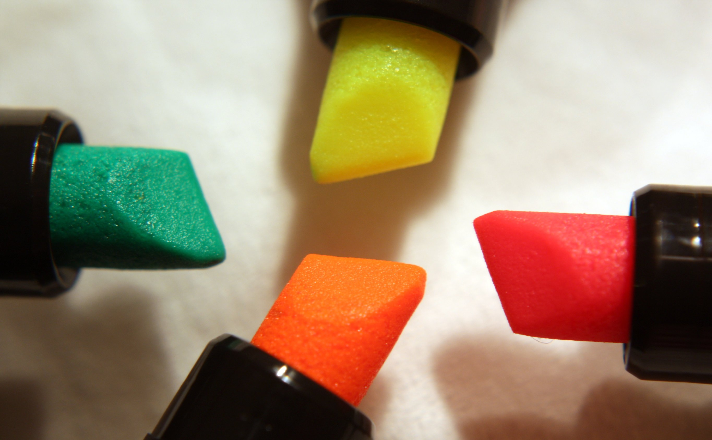 Die MARKER creative commons by marfis75 Twitter: @marfis75 License: cc-by-sa you are free to share, adapt - attribution: Credits to "marfis75 on flickr"